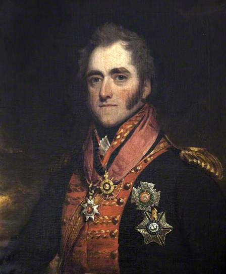 Portrait of General Sir George Anson (1769–1849)